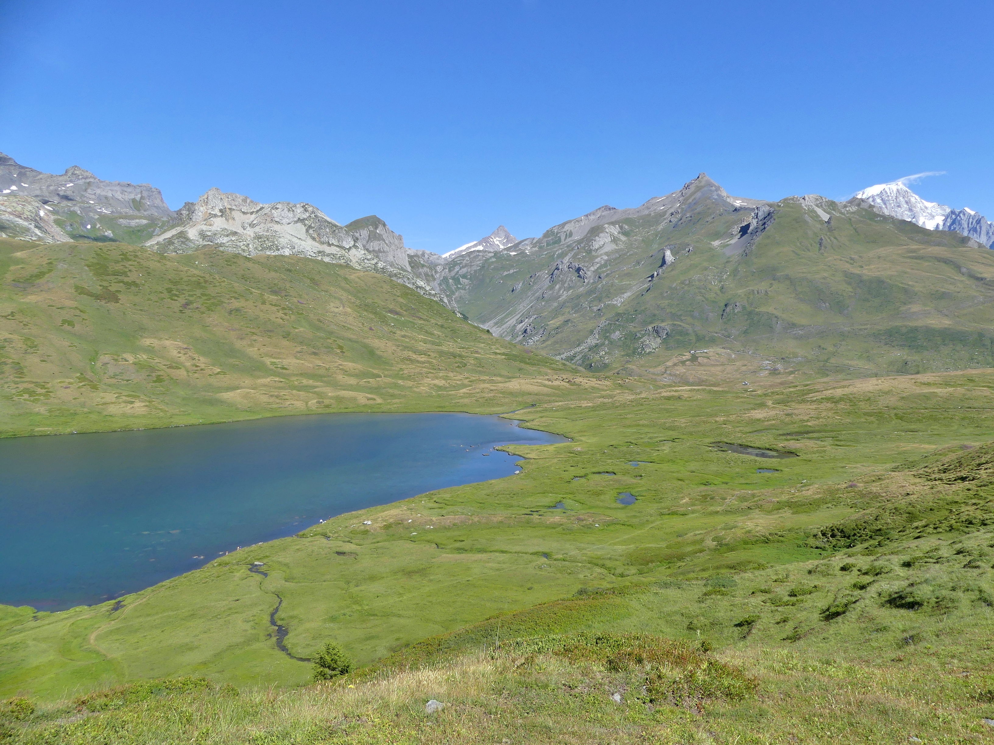 Sight of the northern side of Verney lake, with visible the Aiguille des Glaciers (3,817 meters high) and the Mont Blanc on the left, in Aosta Valley, Italy.